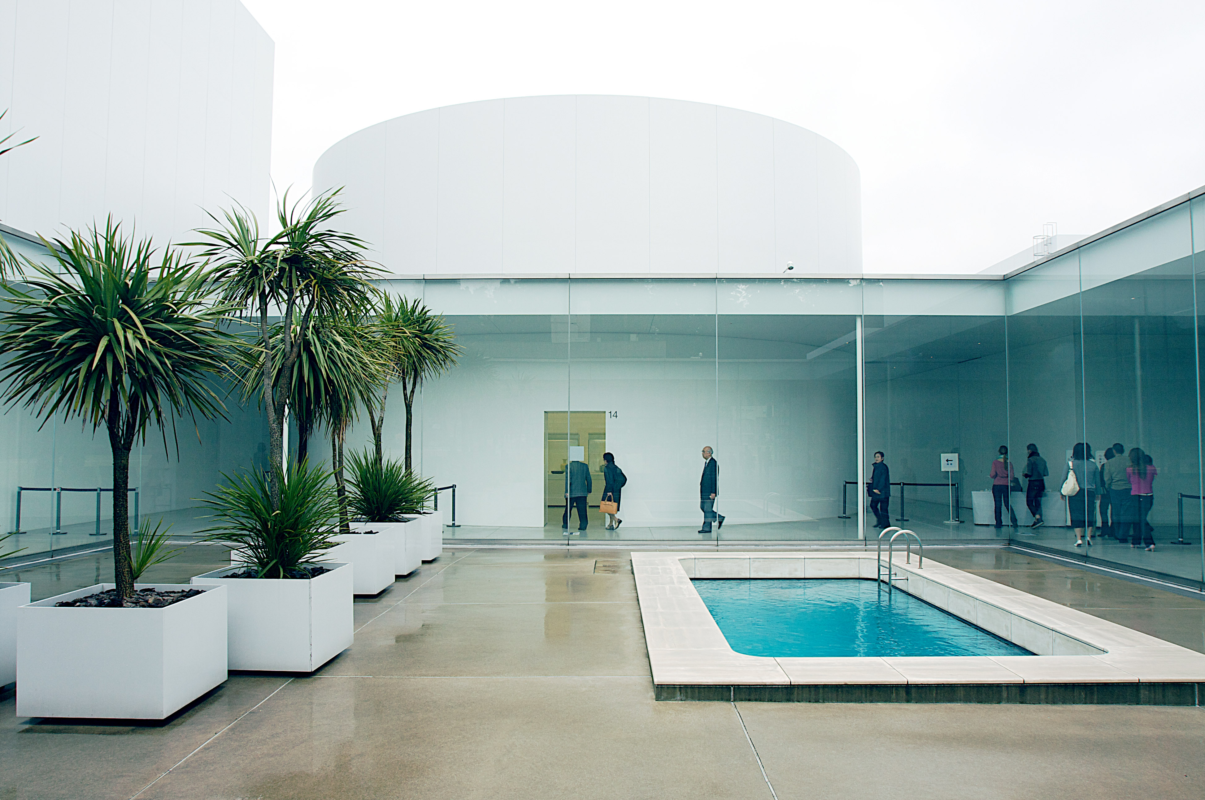 Kanazawa 21st Century Museum of Contemporary Art